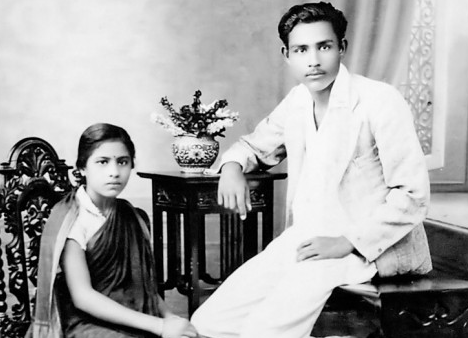 Gajanan Madhav Muktibodh with his wife. The image probably seems in public domain.